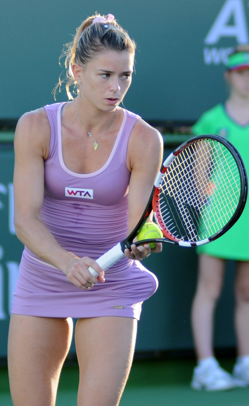 Camila_Giorgi at the 2014 BNP Paribas Open